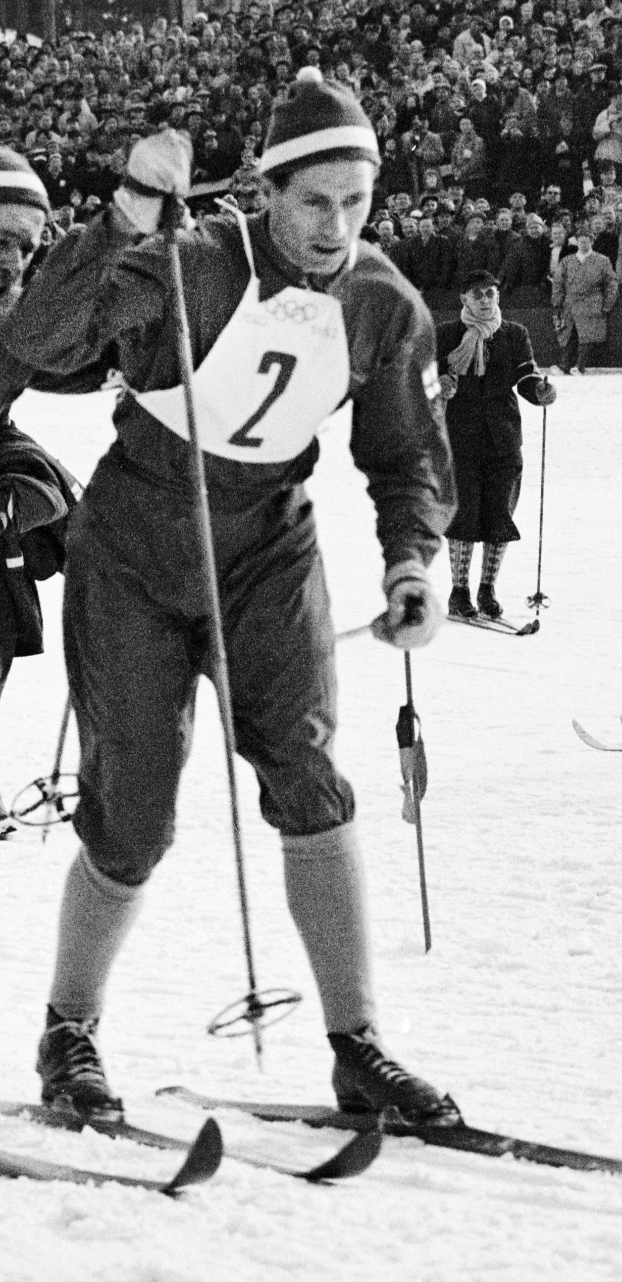 Photograph of the Finnish skiers Paavo Lonkila (left) and Urpo Korhonen of the Finnish team at the 4×10 km relay, 1952 Winter Olympics in Oslo, won by the Finnish team.